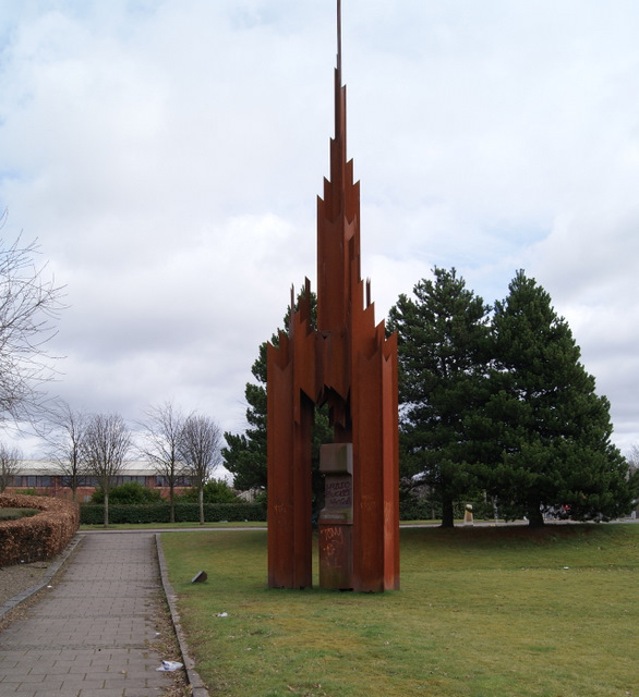 St Rollox Monument. Commemorates those who built railway locomotives at St Rollox. By Jack Sloan in 1995. See also 1780116, 1780110 and 1780110.